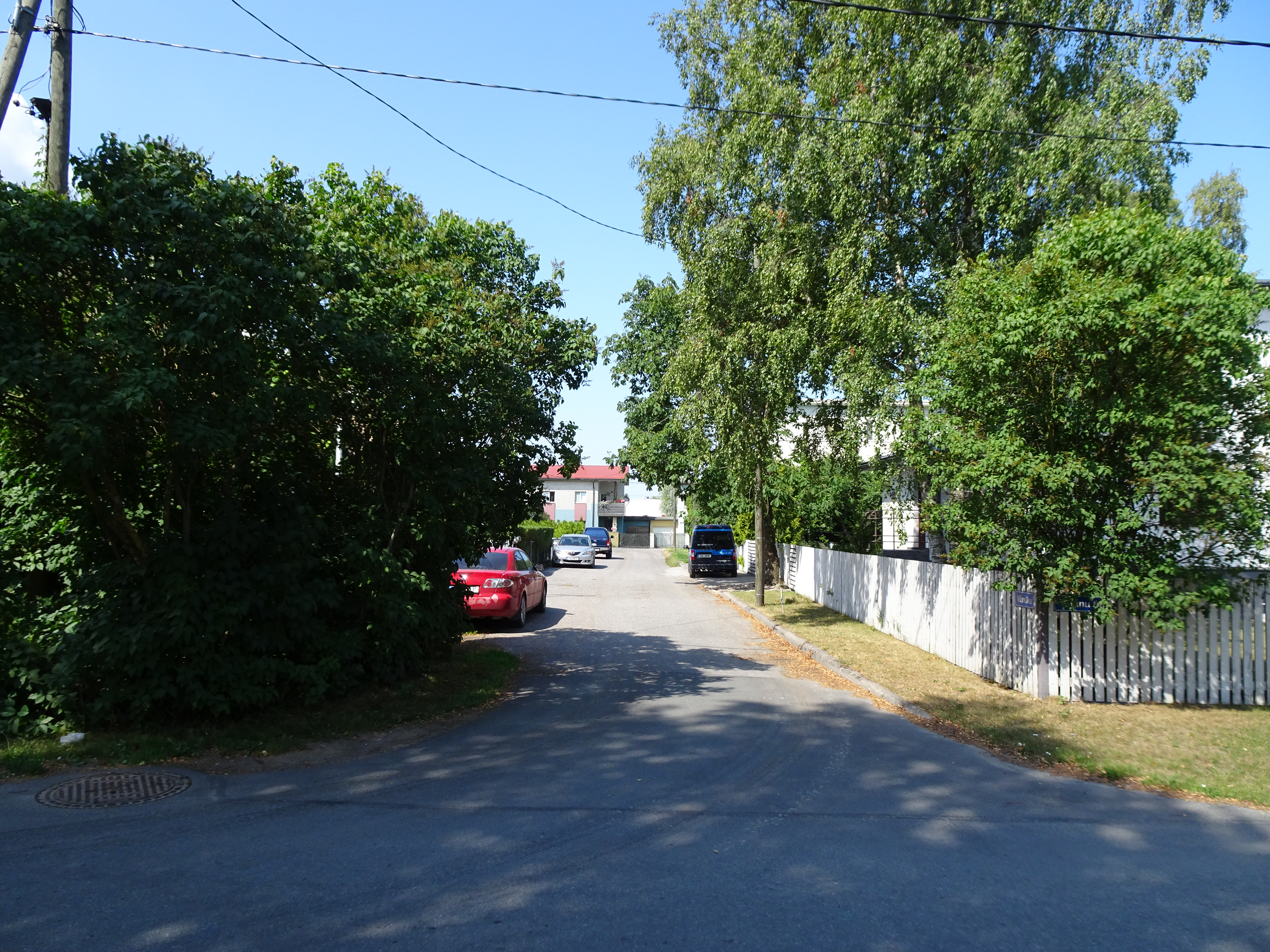 Võrsiku Street in Tallinn, Estonia